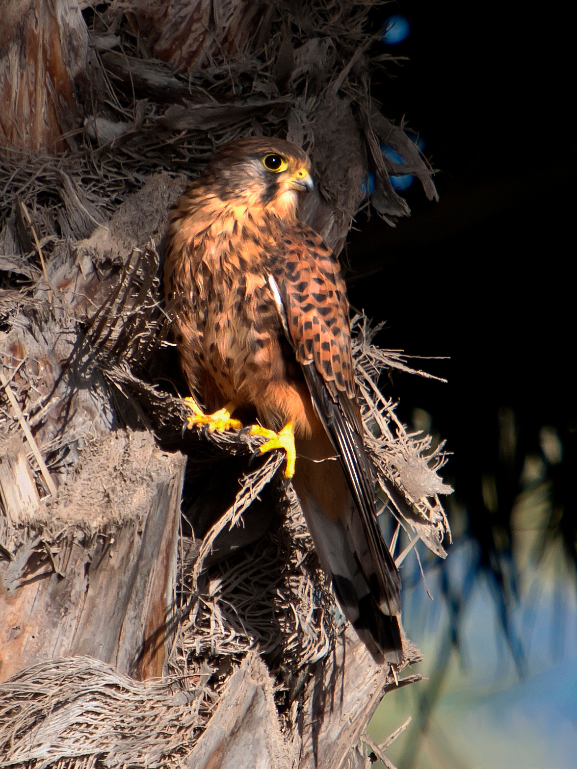 A Common Kestrel in El Castillo del Romeral, Gran Canaria, Canary Islands, Spain.